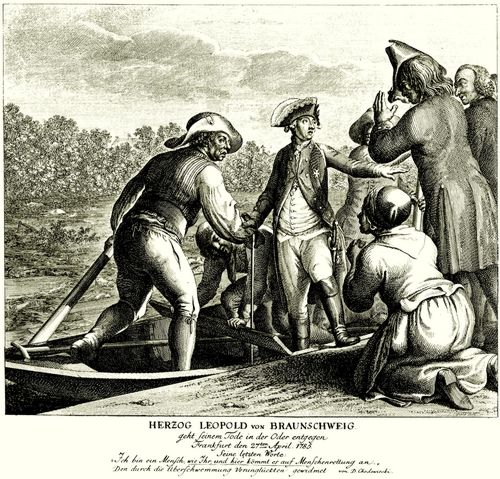 Photo of the drawing of the "Duke Leopold of Brunswick and Luneburg approaching his Death in the River Oder"